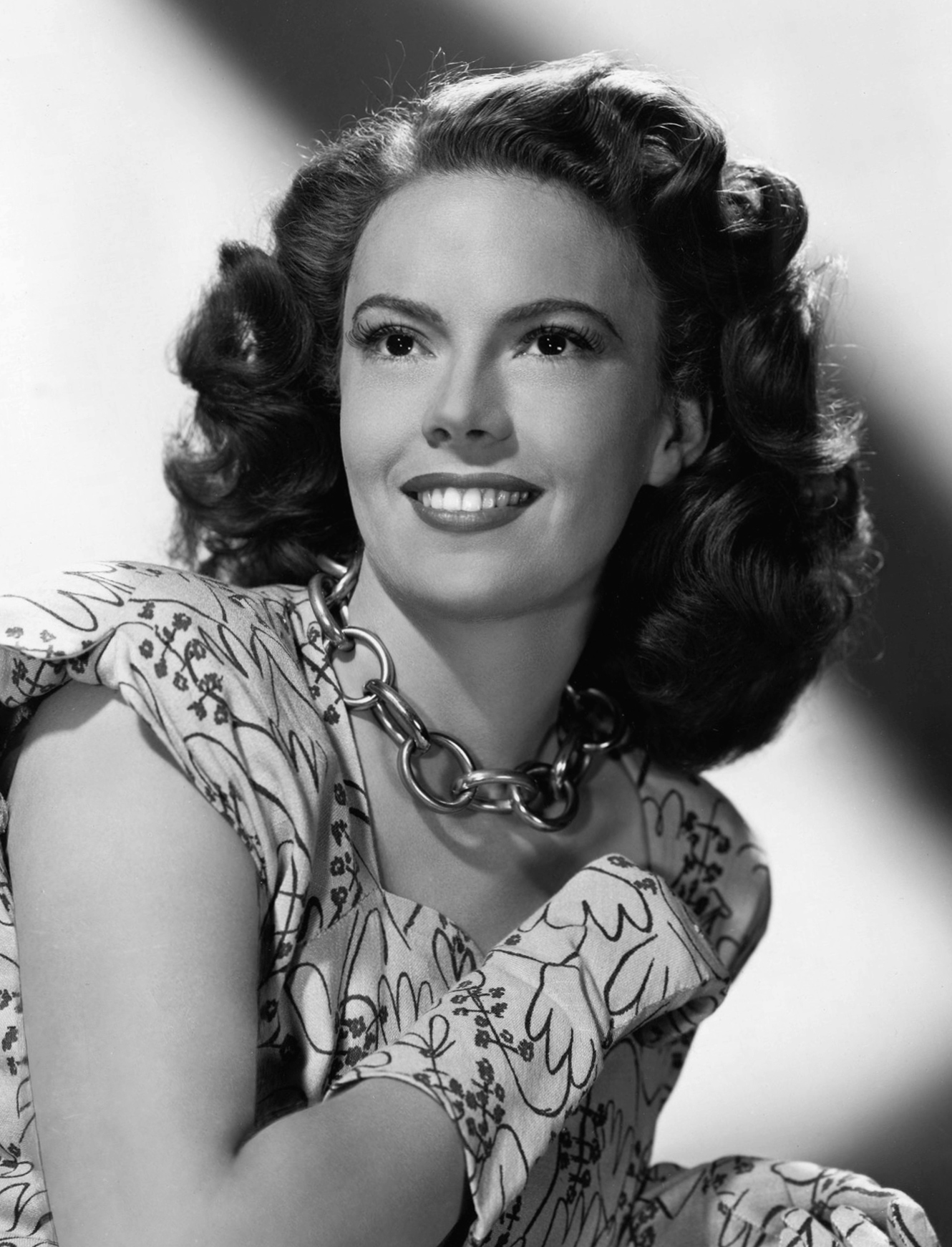 Publicity photo of Jayne Meadows